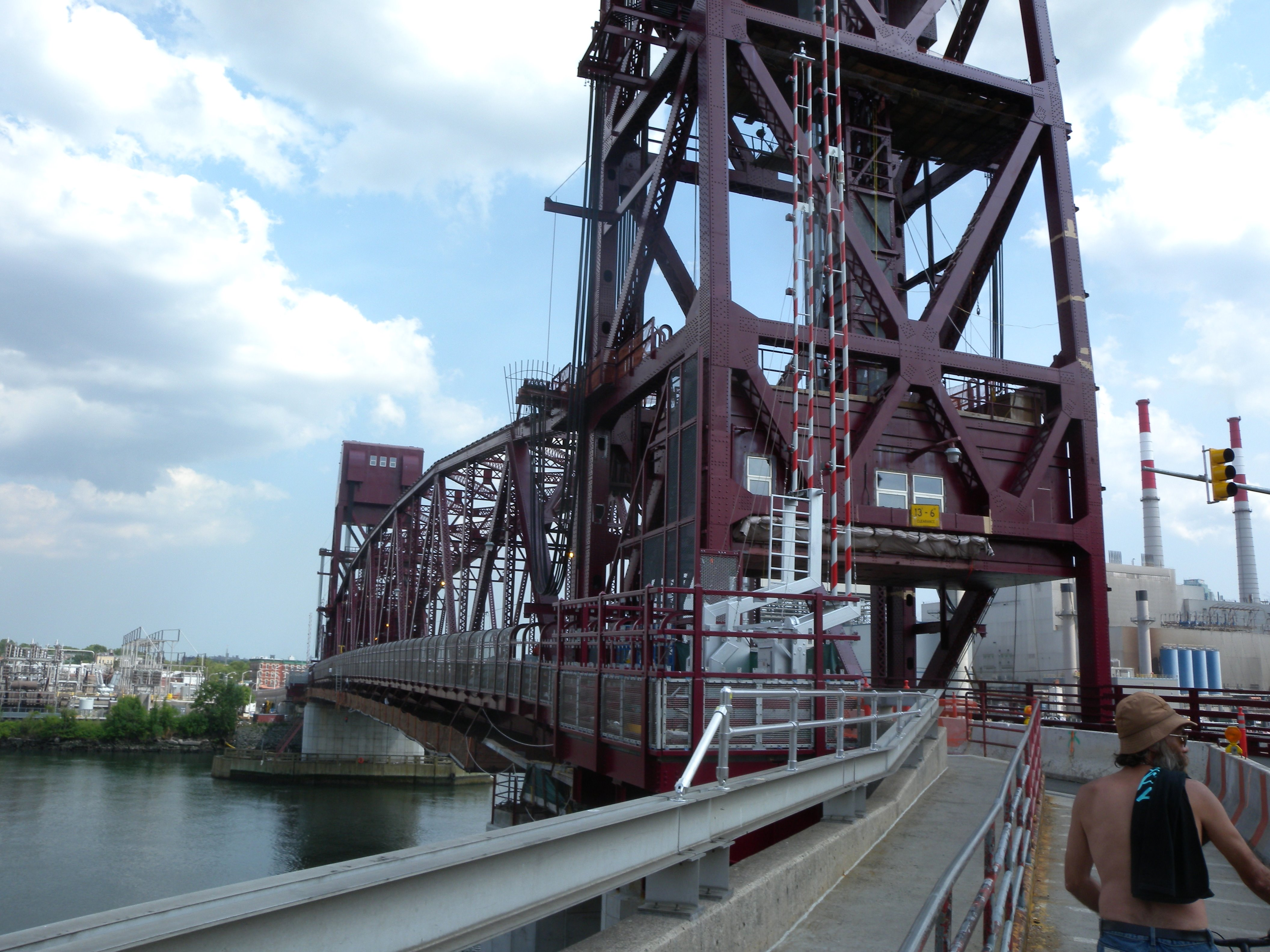 Looking southeast from northwestern sidewalk of Roosevelt Avenue Bridge on a mostly sunny afternoon.